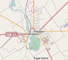 Map thumbnail of Potsdam, New York from OSM